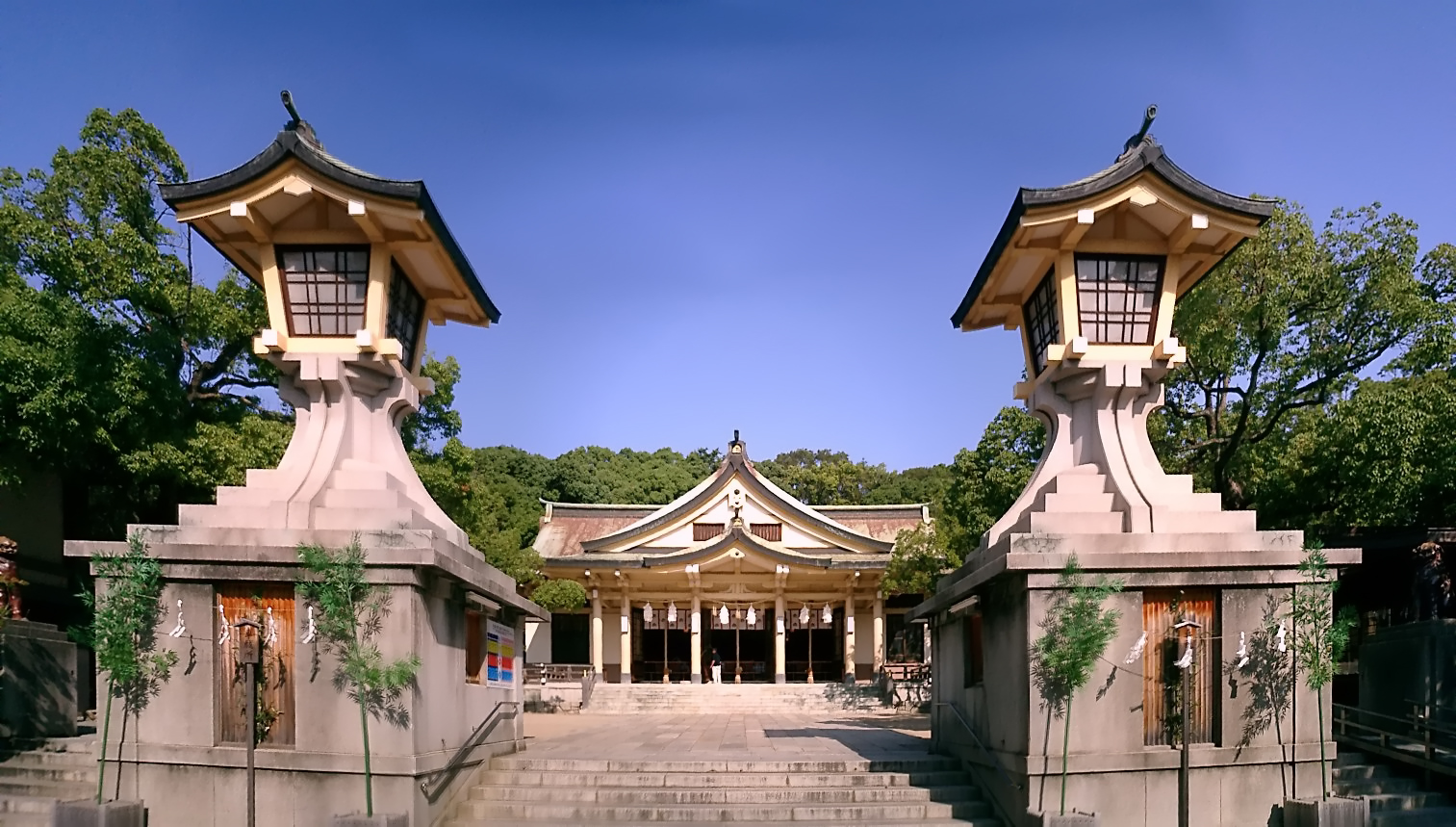 Minatogawa_Jinja(the_front_of_the_main_shrine)